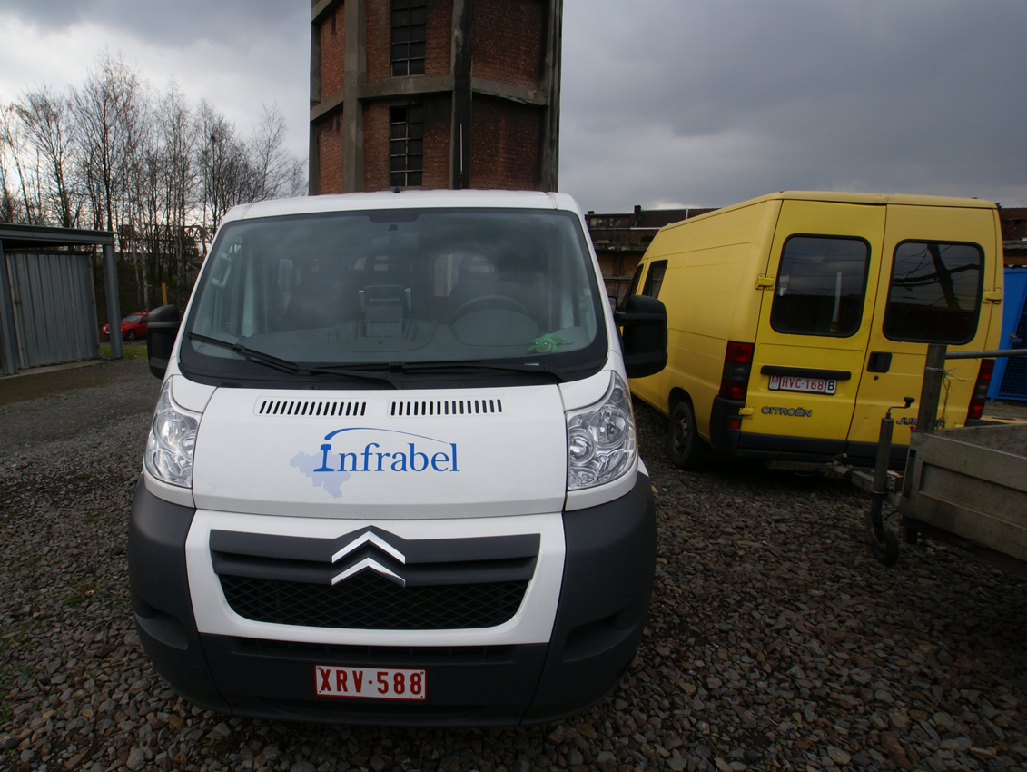 NMBS/SNCB (Belgium): Van with the Infrabel-logo in the Kinkempois Station